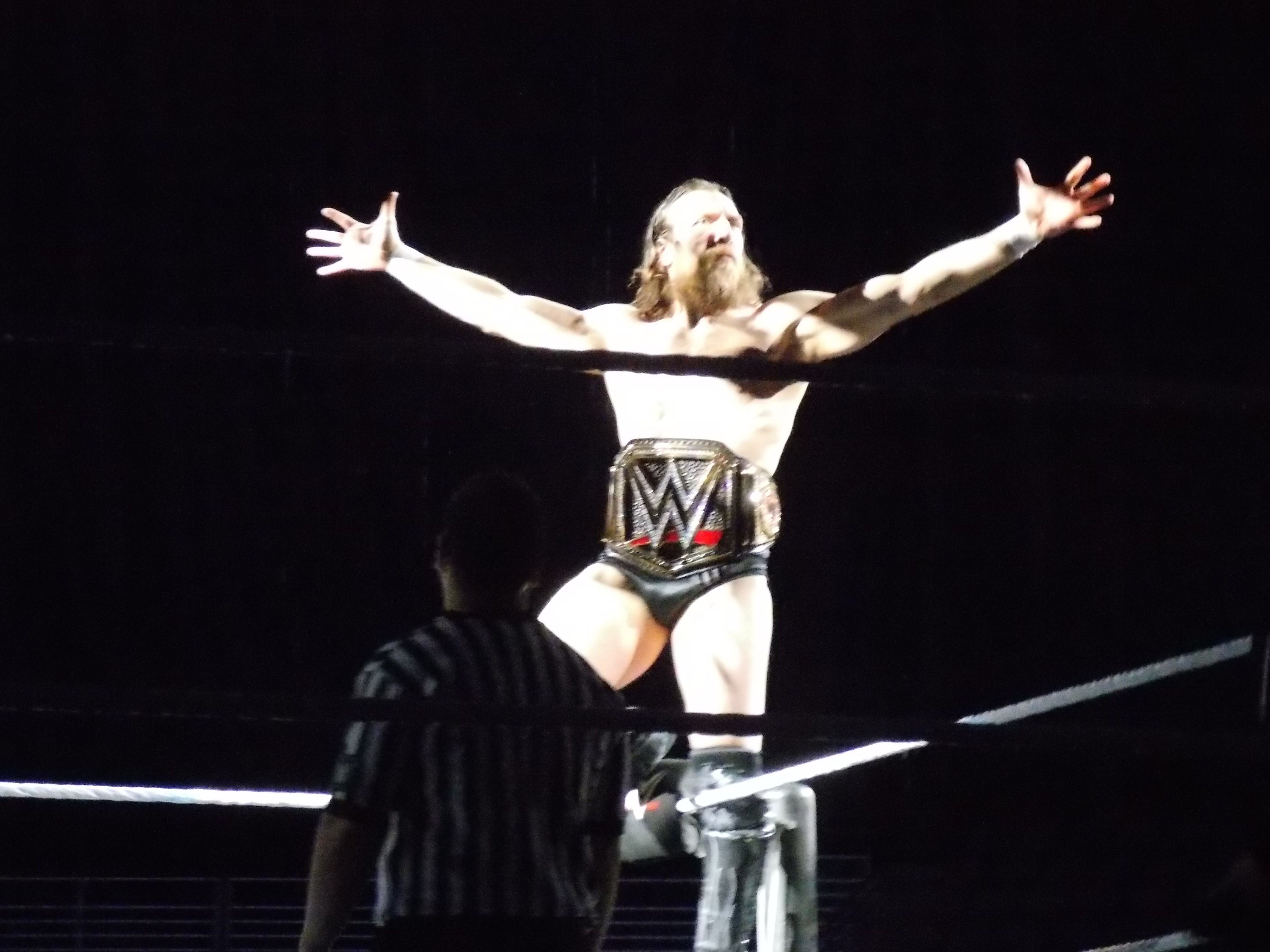 WWE Champion Daniel Bryan at a WWE Live Event House Show in Omaha, Nebraska, USA on Sunday, January 20, 2019